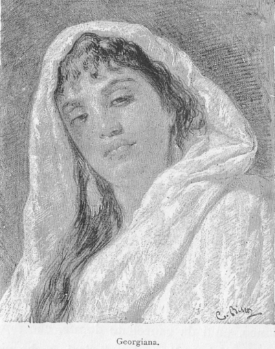 Georgian women. Constantinople (1878)